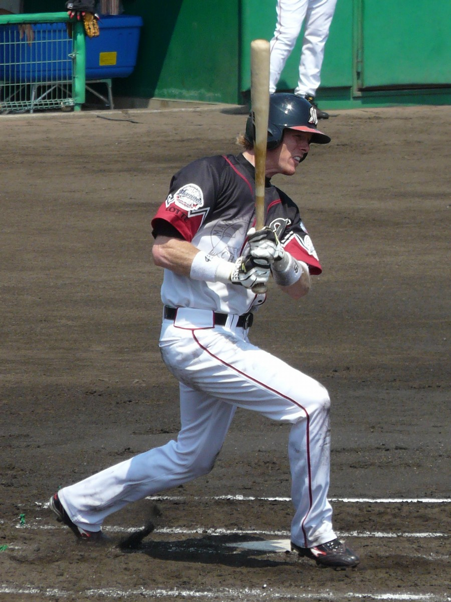 Chase Lambin, infielder of the Chiba Lotte Marines, at Yokkaichi Kasumigaura Baseball Stadium.